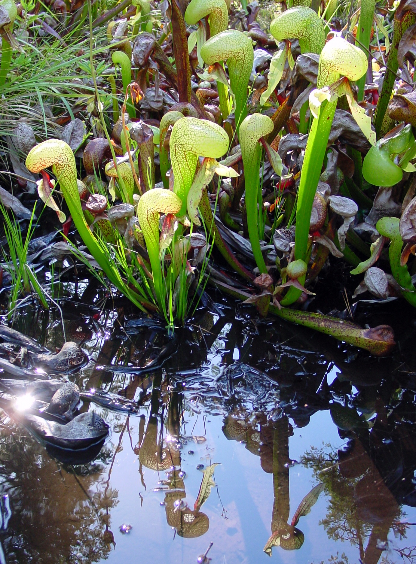 Darlingtonia californica — California pitcher plant. On the "Botanical Trail" at Butterfly Valley Botanical Area (July 7), Sierra Nevada, Plumas County, northern California. Picture taken by: NoahElhardt Date: 7/7/05